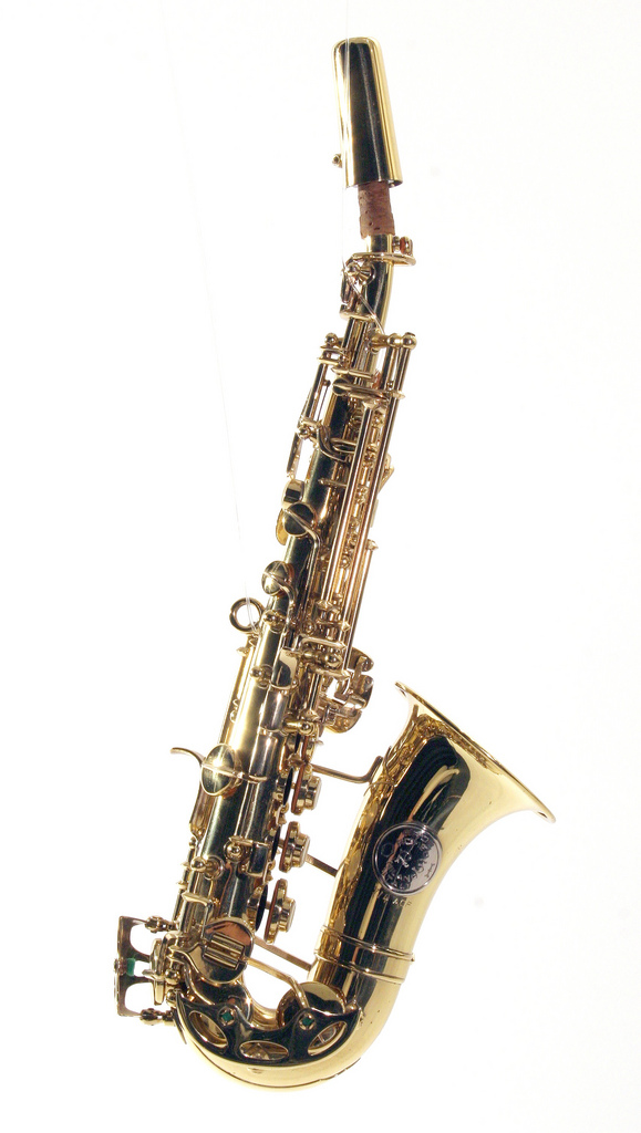 The sopranino saxophone is one of the smallest members of the saxophone family. A sopranino saxophone is tuned in the key of Eb, and sounds an octave above the alto saxophone.